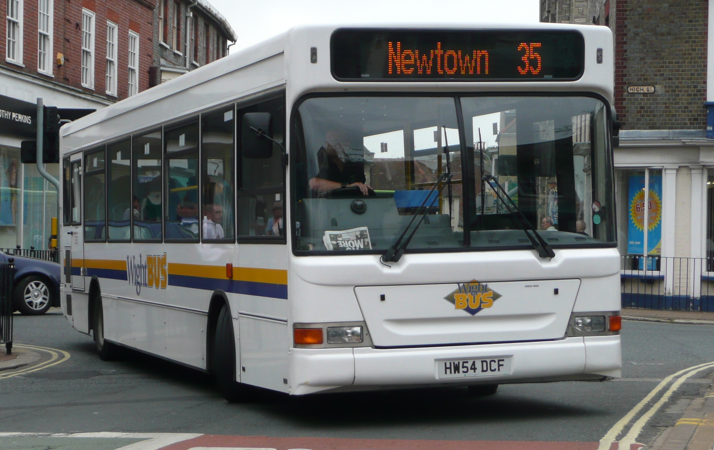 Wightbus 5805 (HW54 DCF), a Dennis Dart SLF/Plaxton Pointer 2, about to start route 35, in St James Square, Newport, Isle of Wight.